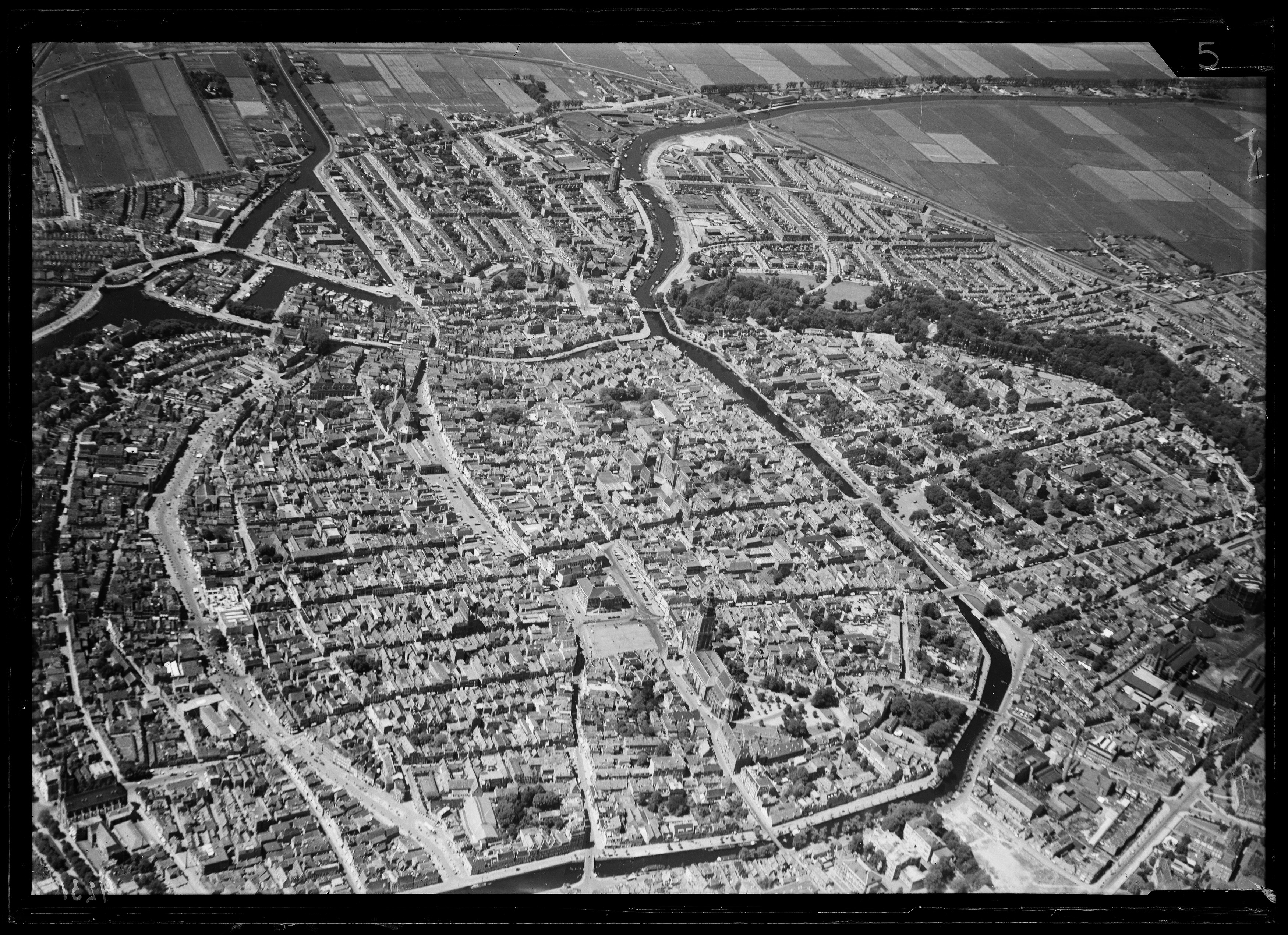 Aerial photograph of Groningen, The Netherlands